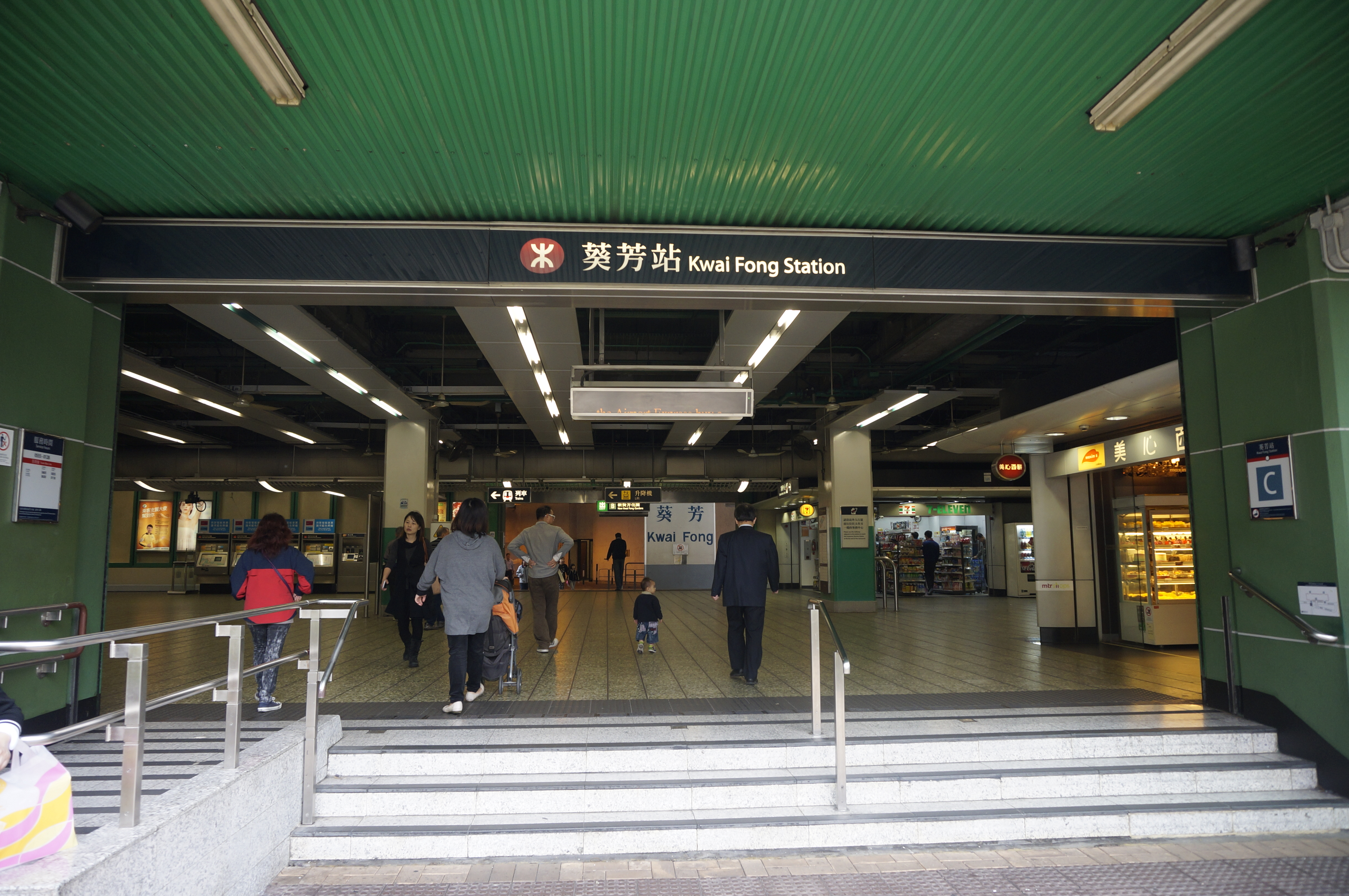 港鐵葵芳站C出入口